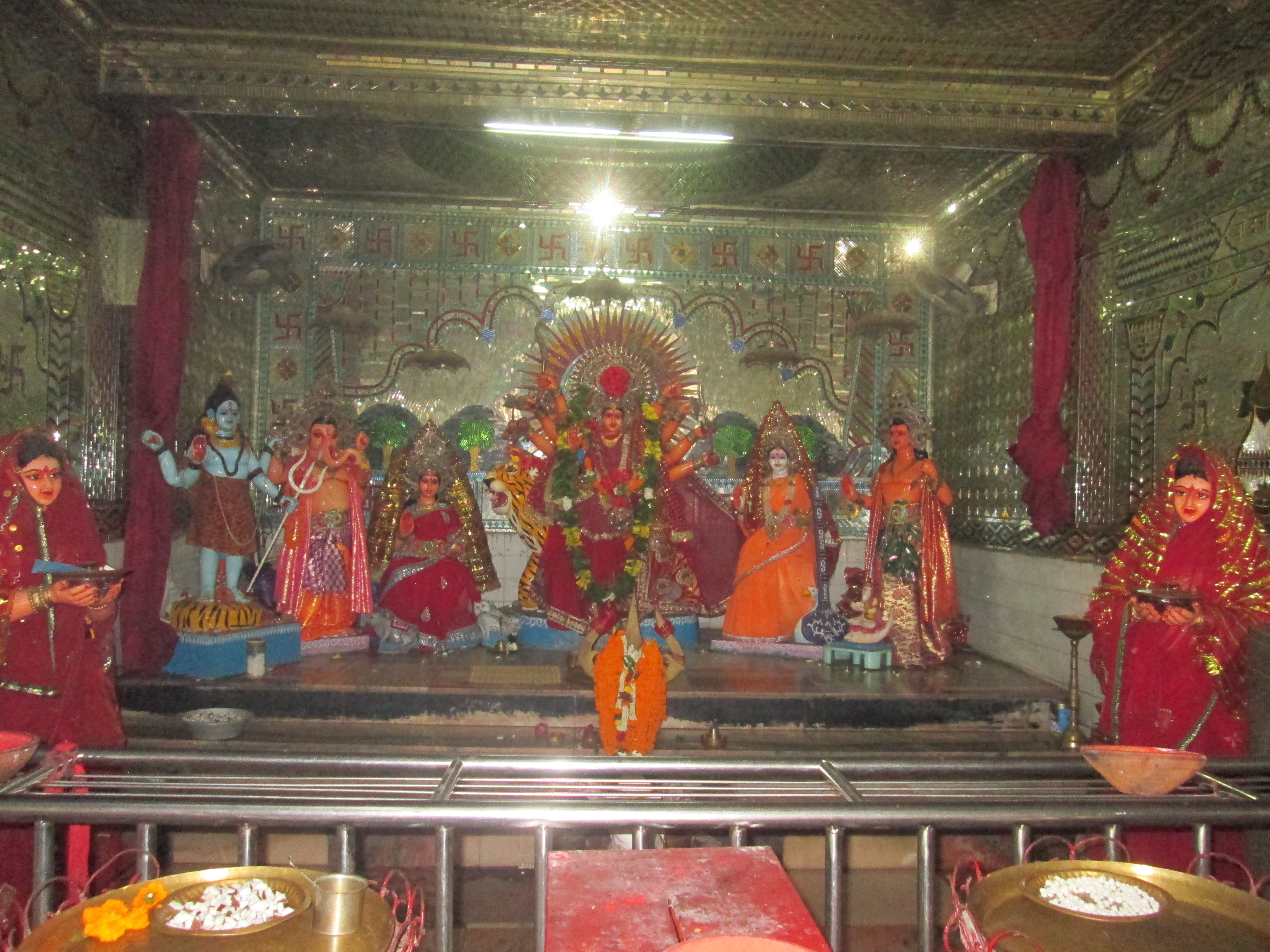 Kanak Durga Gadi Mandir, Jharsuguda, Odisha